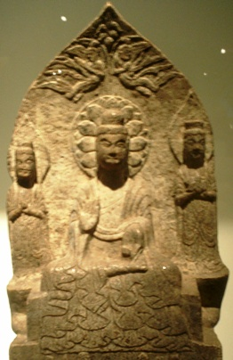 Eastern Wei Buddha. Musee Guimet, personal photograph 2004, released in the Public Domain.